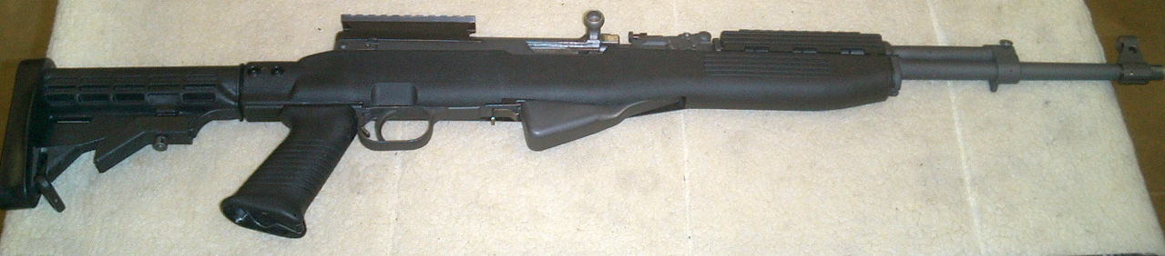 A heavily sporterized SKS carbine. Picture taken by myself on 9/22/07.